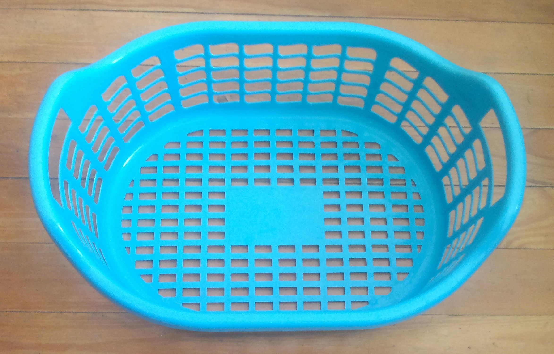 A blue pvc injection moulded laundry basket